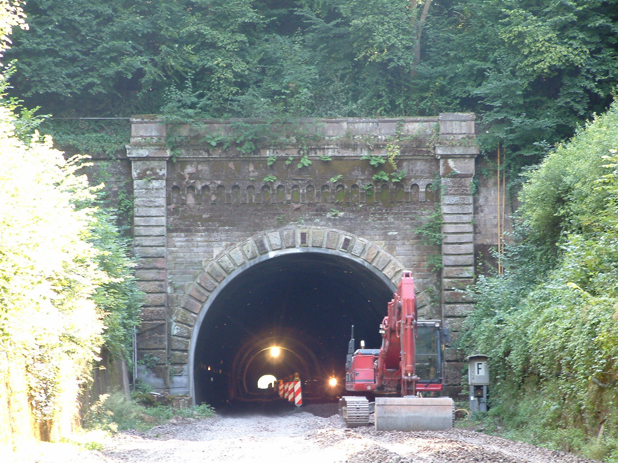 Weinsberg railroad tunnel between Heilbronn and Weinsberg, northern portal (Weinsberg) when the railway was upgraded for Stadtbahn (tram-train) operation